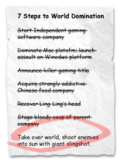 The "Seven Steps for World Domination", an example of the work culture of video game developer Bungie.